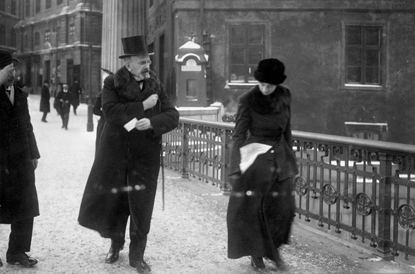 Swedish Prime Minister Hjalmar Hammarskjöld on his way from the chancery building (in background) to the Parliament in March 1917.